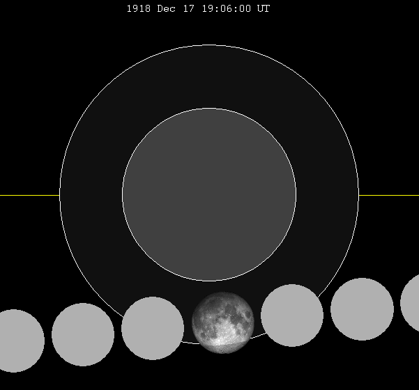 =lunar eclipse chart of moon's path through the earth's shadow. thumb